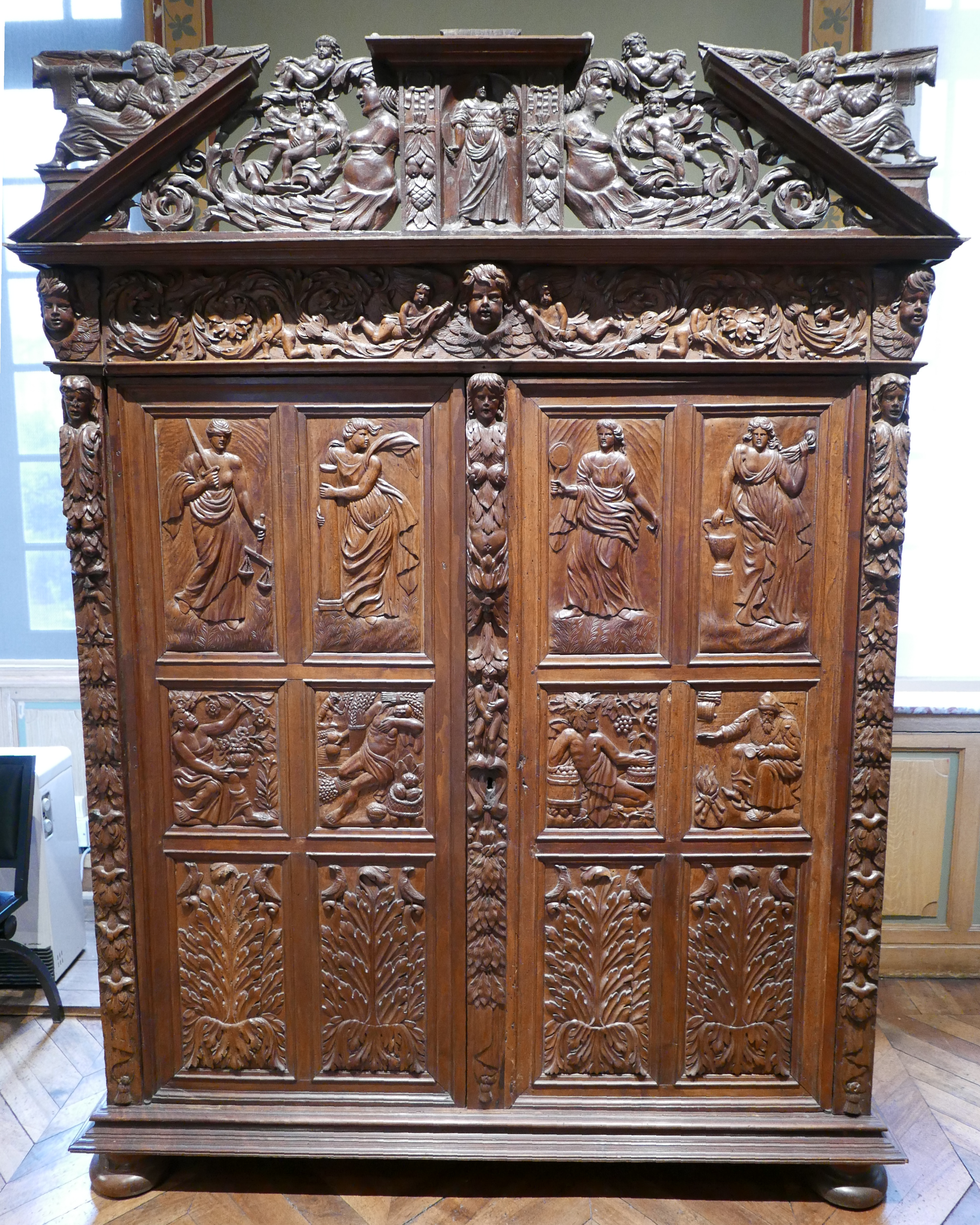 Nîmes (Gard, Languedoc, France), on the Place aux Herbes, in the former episcopal palace, the Museum of Old Nîmes, ethnographic museum or Popular Arts and Traditions of Nîmes. The historiated cabinets of Lower-Languedoc.